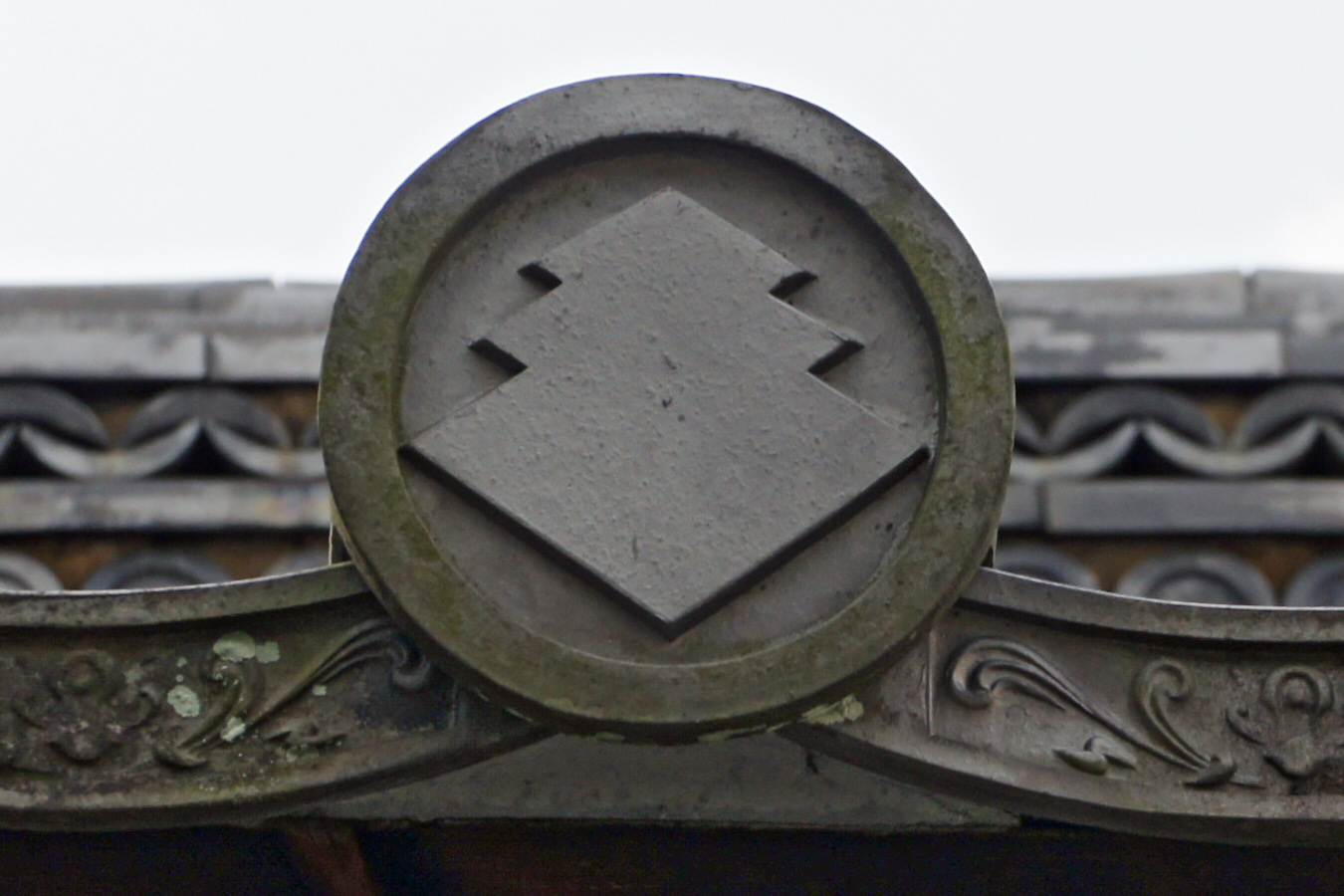 Former Anji-han Jin'ya Omotemon (The main gate of former Anji Domain's Jin'ya) in Himeji, Hyogo prefecture, Japan.